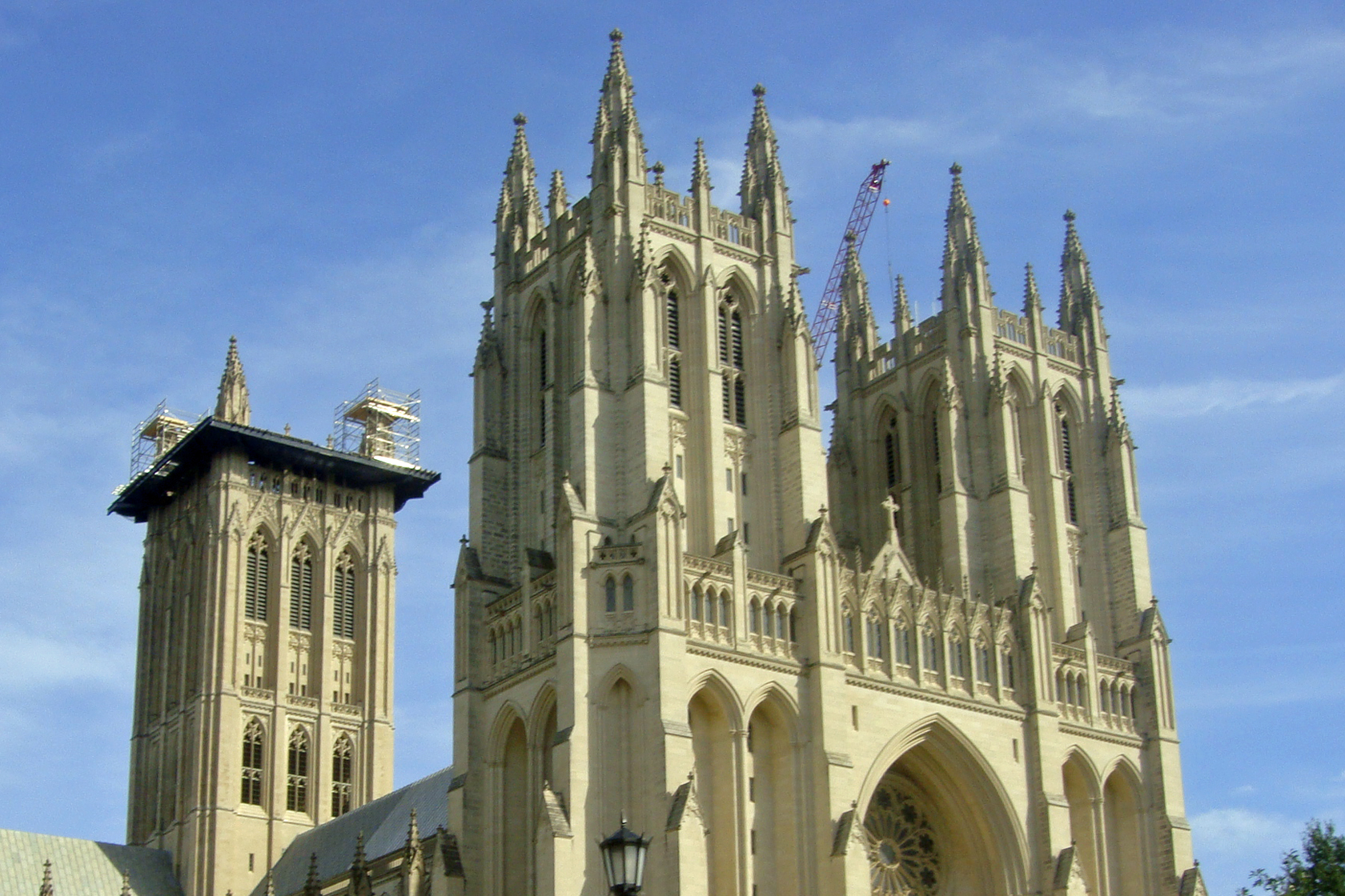 Stabilization work at the Washington National Cathedral after the 2011 Virginia earthquake, which left damages across the building including three of the four pinnacles (corner spires) on the central tower.